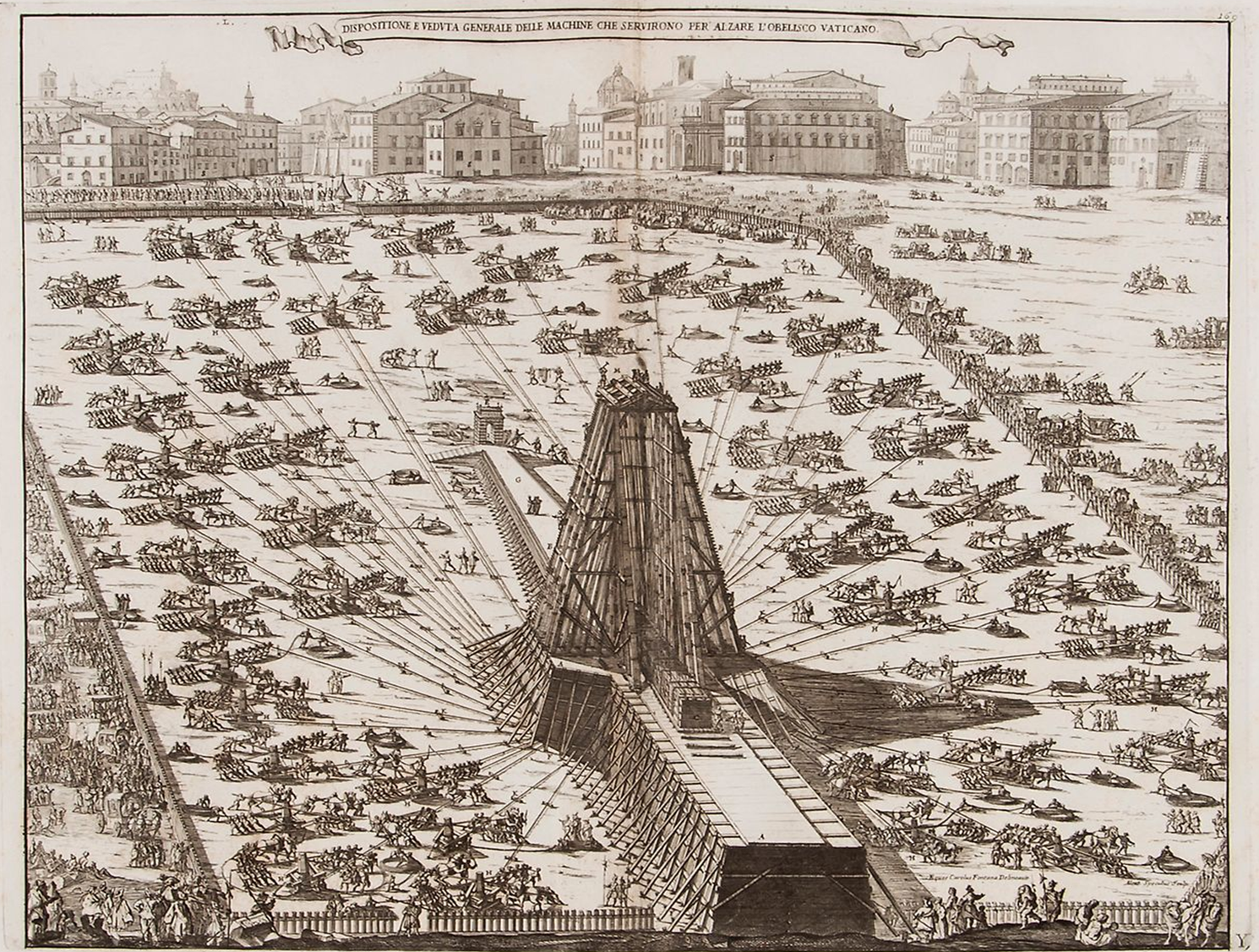 Text on the banner: Dispositione e veduta generale delle machine che servirono per alzare l'obelisco Vaticano (translation: Positioning and overview of the machines that will erect the Vatican obelisk). In 1586, Domenico Fontana erected an Obelisk on Peter's Square in Rome. It took a concerted effort of 900 men and 75 horses and countless pulleys to erect this monument.